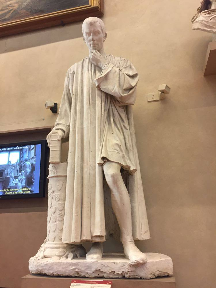 Statue of Machiavelli in the Galleria dell'Accademia in Florence.